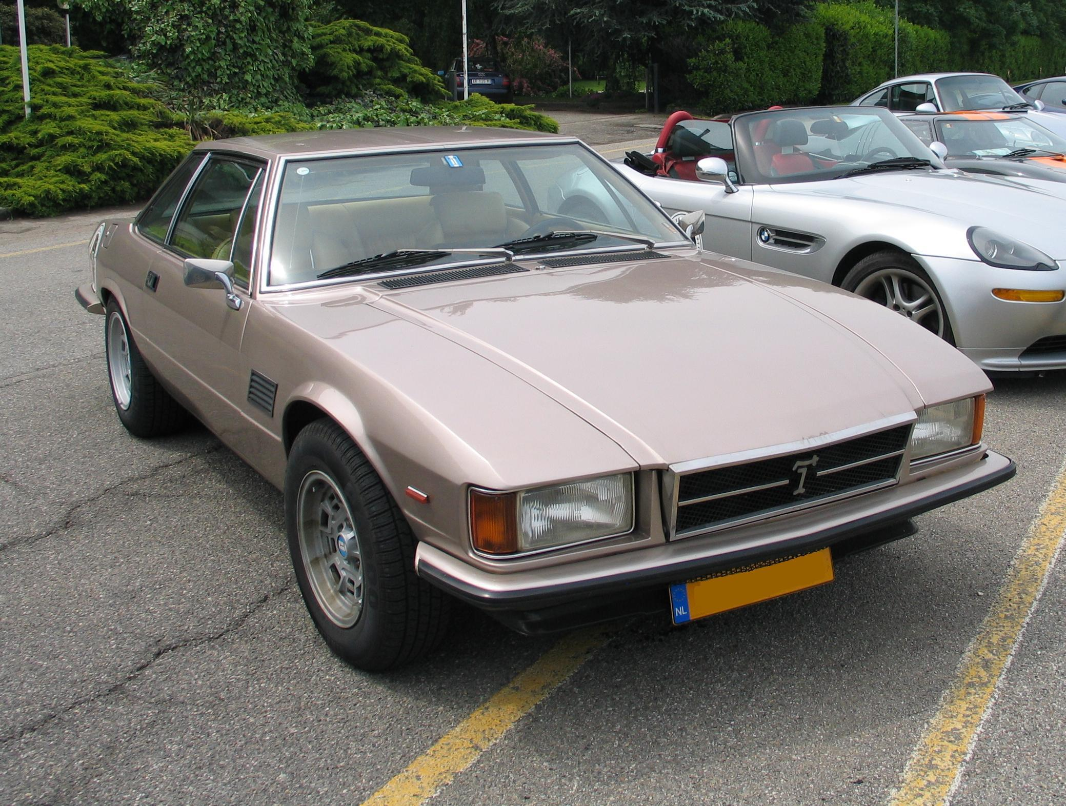 DeTomaso_Longchamp